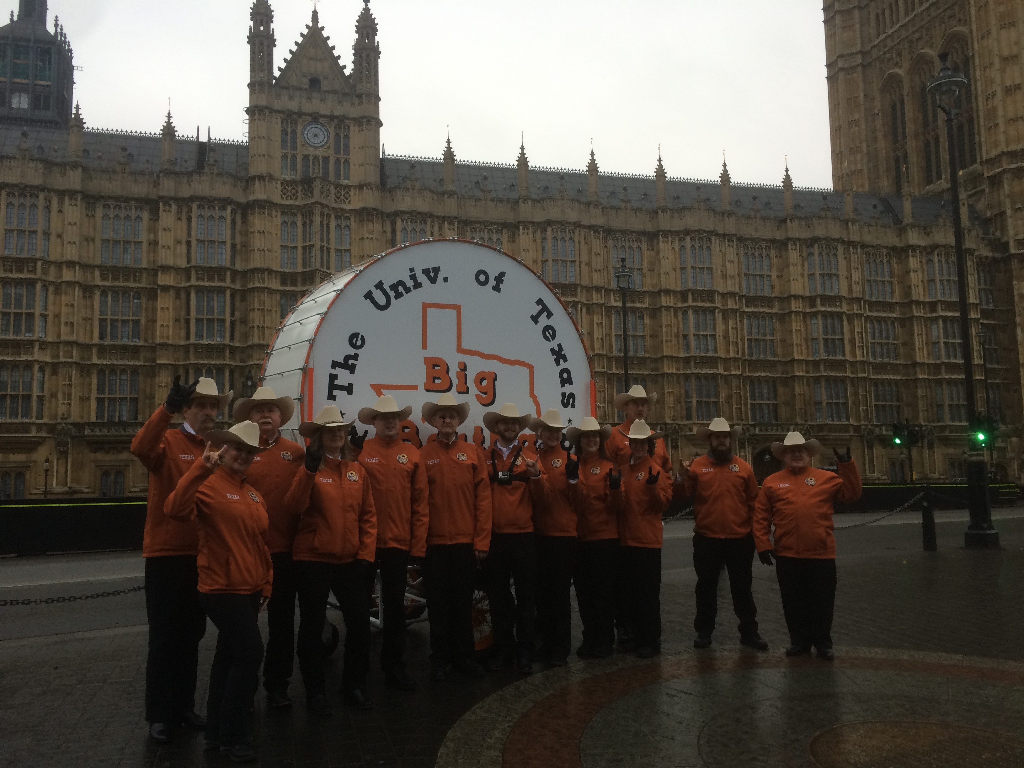 Big Bertha and the Bertha Crew in front of the Parliament Building in London, England, on January 1, 2015.